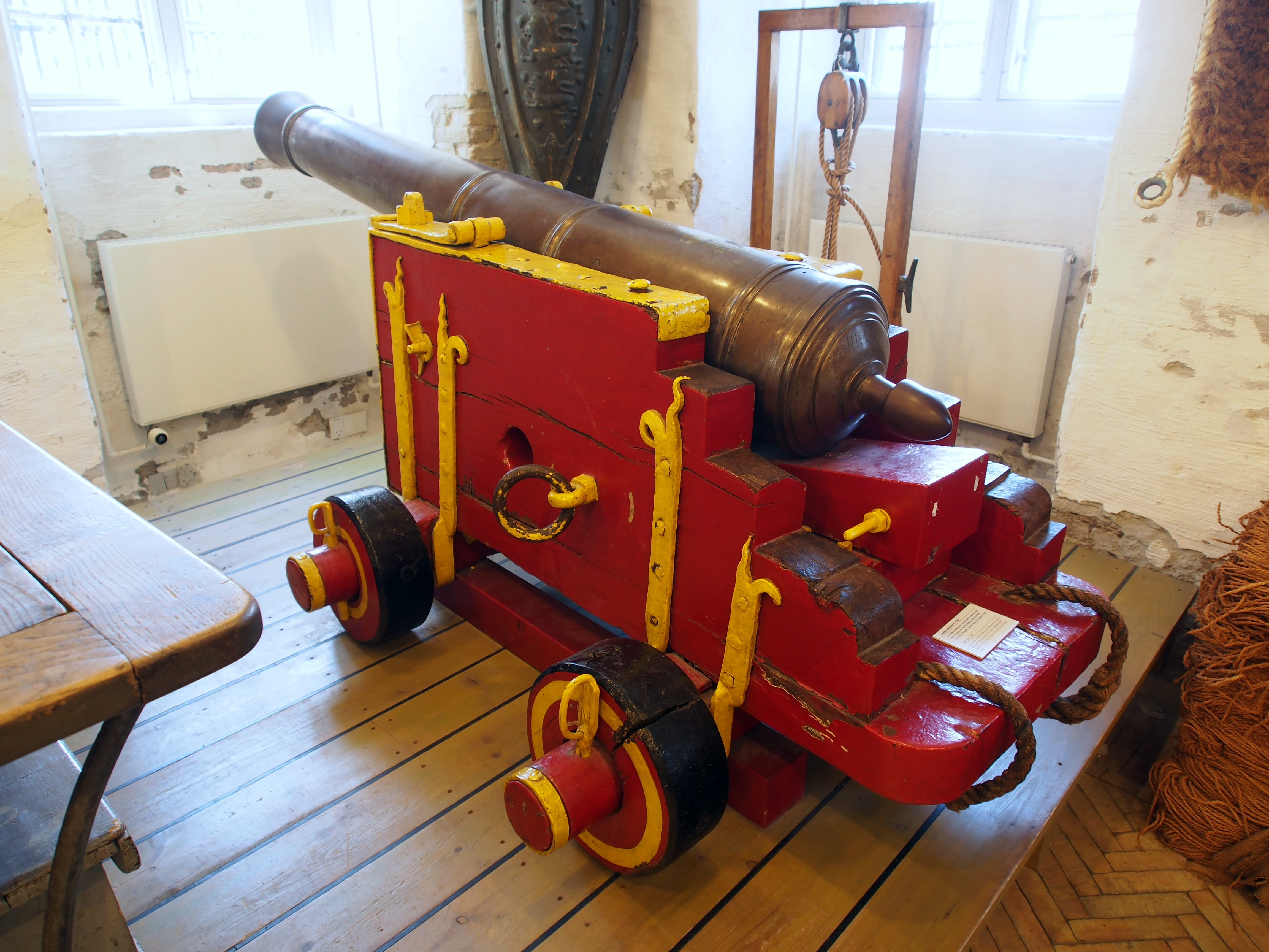 Photographed at the Royal Danish Naval Museum Copenhagen, Denmark.